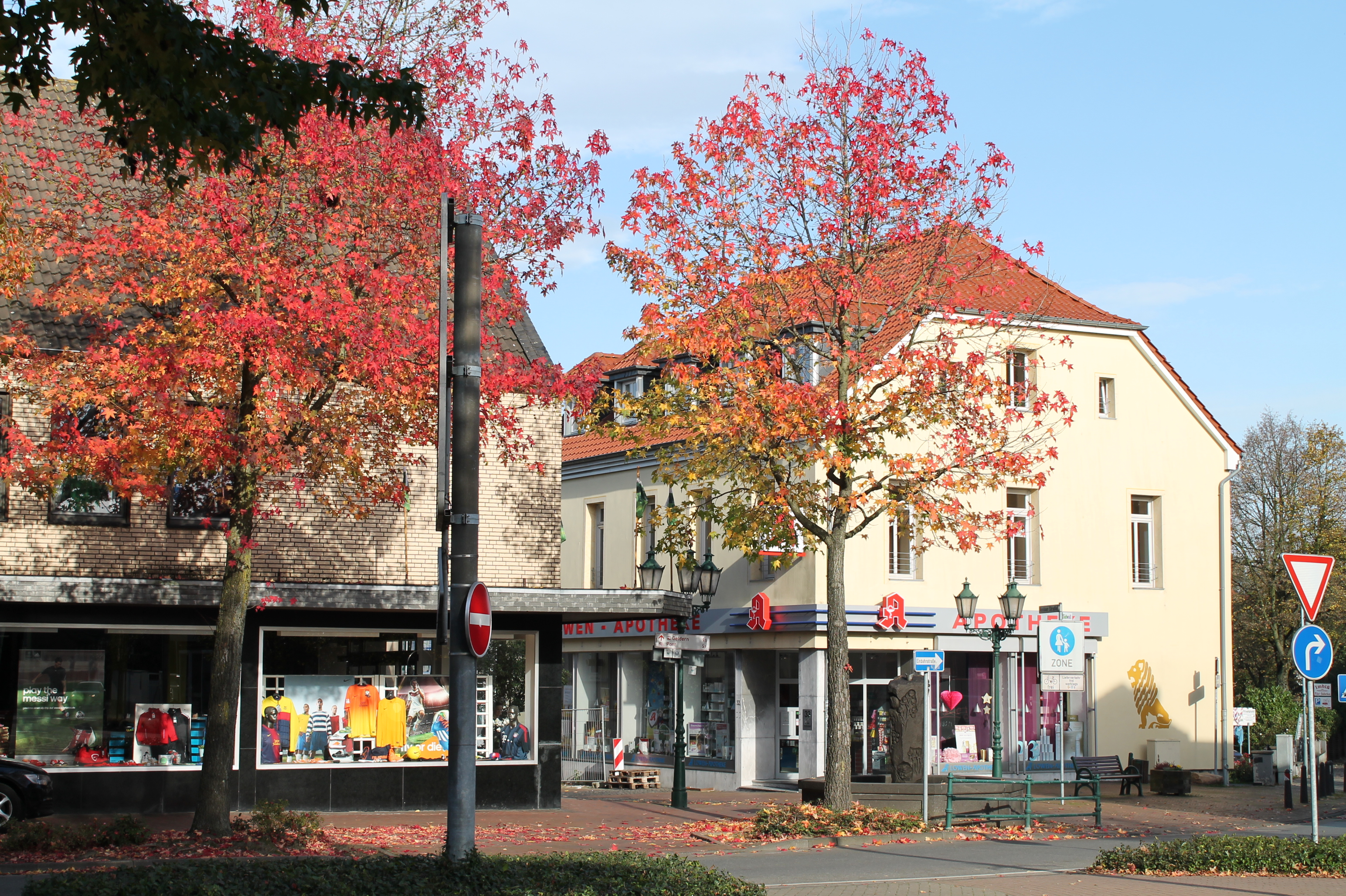 At the Venloer Tor, Straelen.